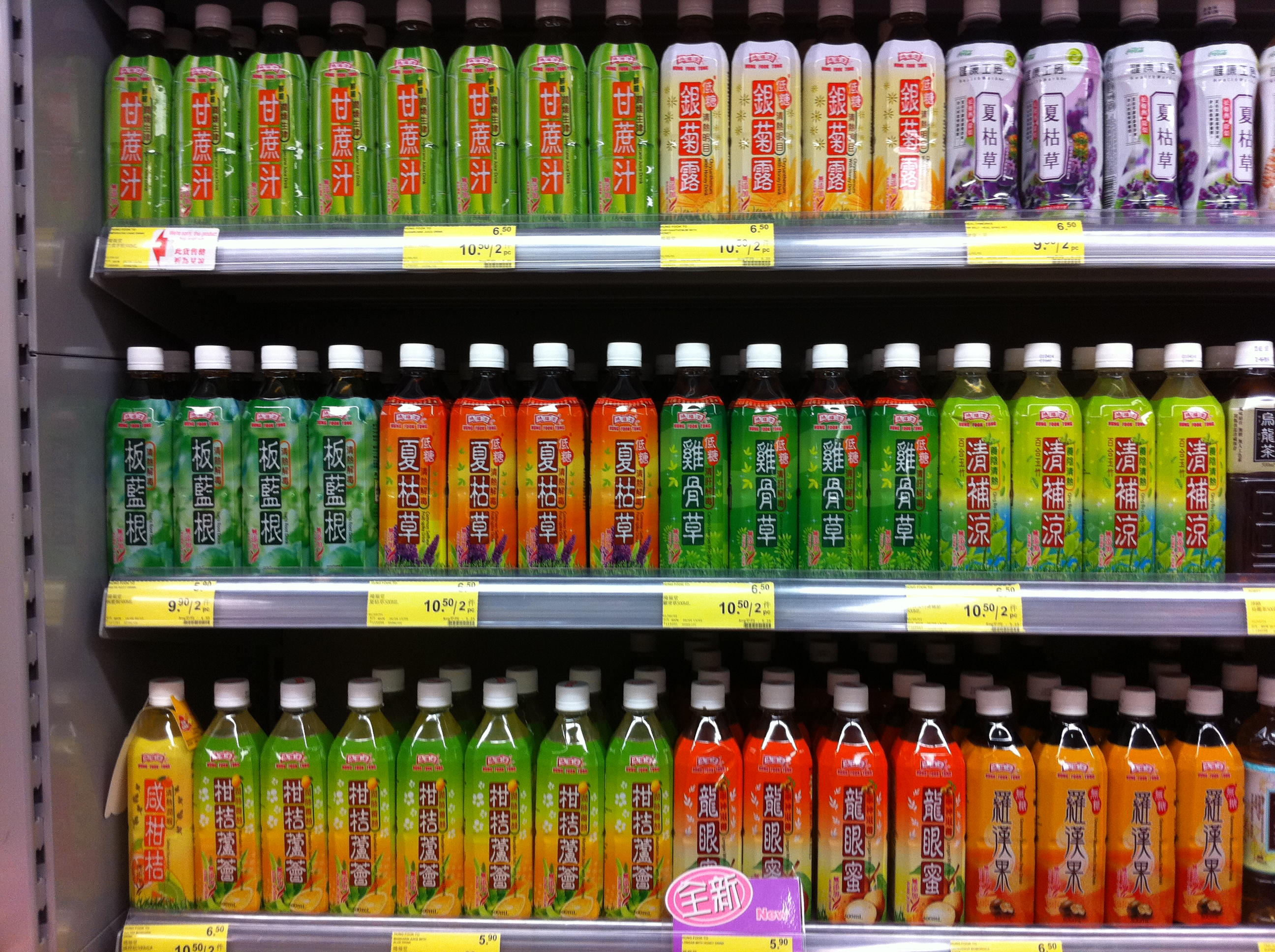 Plastic bottles of drink from Hung Fook Tong, Hong Kong